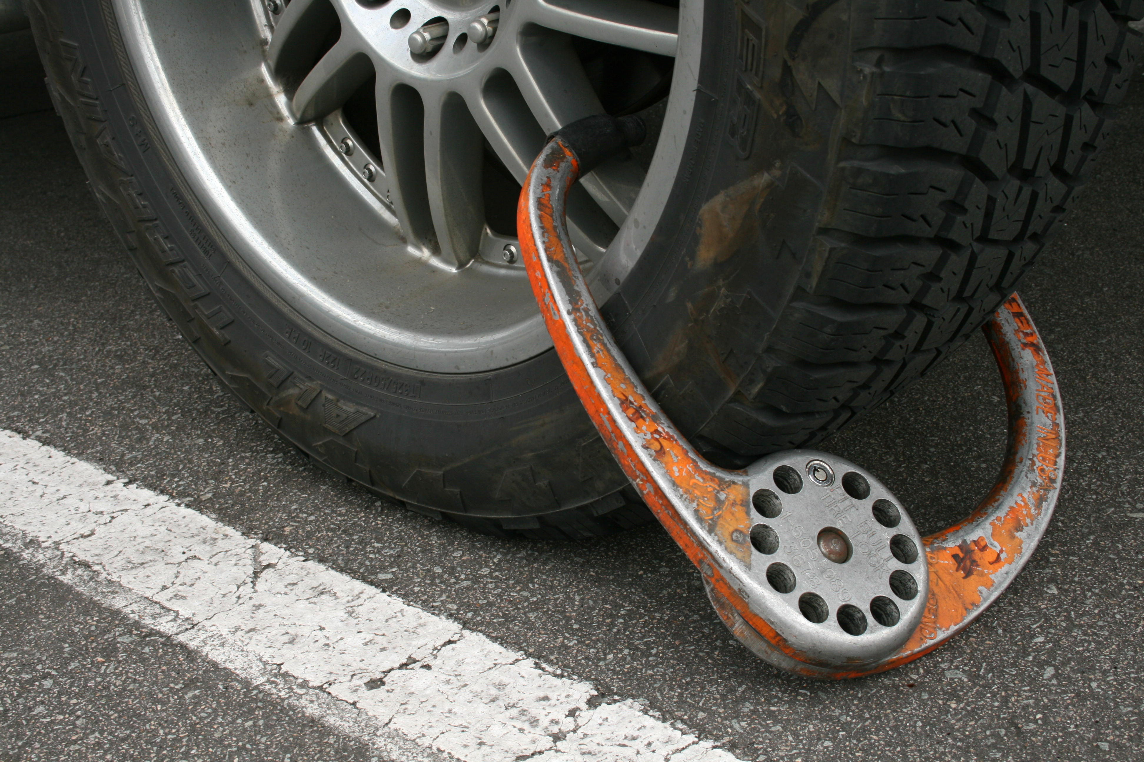 A Pit Bull Tire Lock wheel clamp attached to a Hummer illegally parked at Duke University East Campus in Durham, North Carolina.